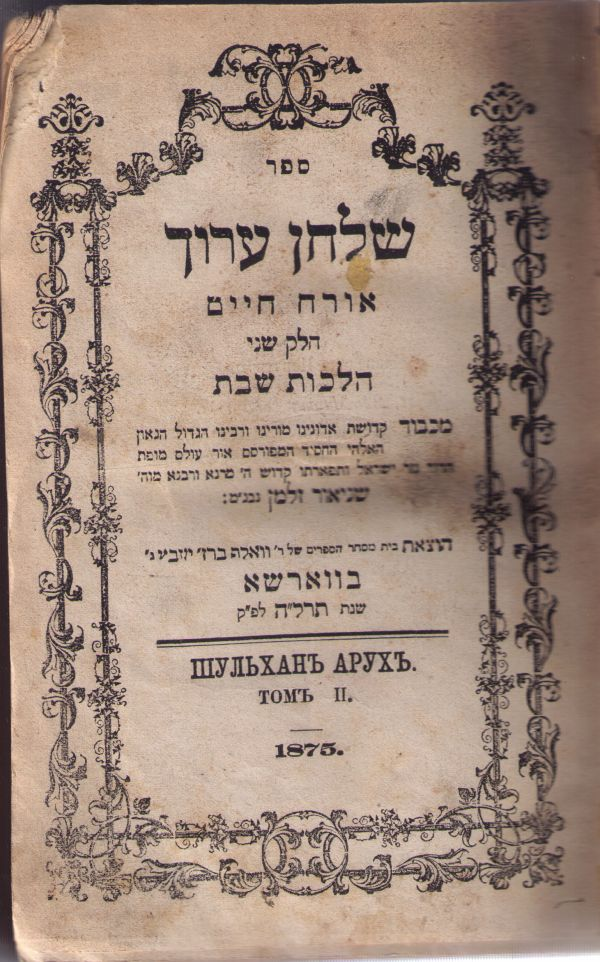 Title page of Shulchan Aruch by Shneur Zalman of Liadi, published in Warsaw, 1875